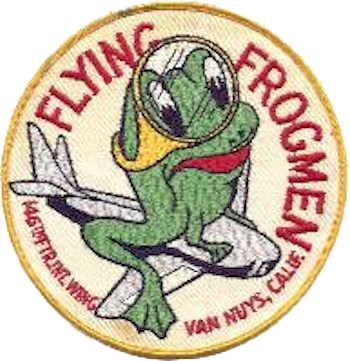 146th Fighter-Interceptor Wing - Unofficial Emblem